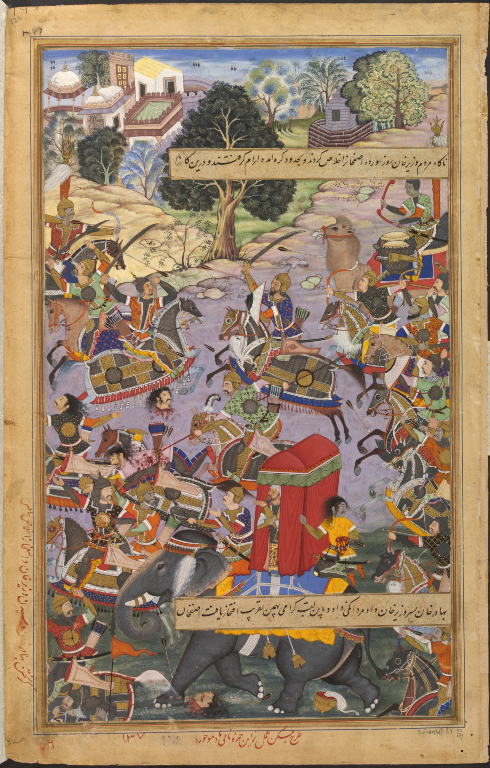 This illustration to the Akbarnama (Book of Akbar) depicts the fight that took place in 1567 between Wazir Khan and ‘Ali Quli Khan in order to free the captive Mughal noble Asaf Khan. Formerly loyal to the Mughal emperor Akbar (r.1556–1605), Asaf Khan had rebelled and, with his brother Wazir Khan, joined another disloyal faction, headed by ‘Ali Quli Khan and Bahadur Khan. However, they became disaffected with this new alliance and tried to flee, but Asaf Khan was captured, shackled and put inside an elephant litter (seen in the foreground). Wazir Khan attacked the rebels and freed the captive. The overall composition of the painting was designed by the Mughal court artist Jagan, with the details being painted by Narayan, except for the most important portraits which, according to the contemporary inscriptions at the bottom of the page, were done by Madhav the Younger. V & A Museum.